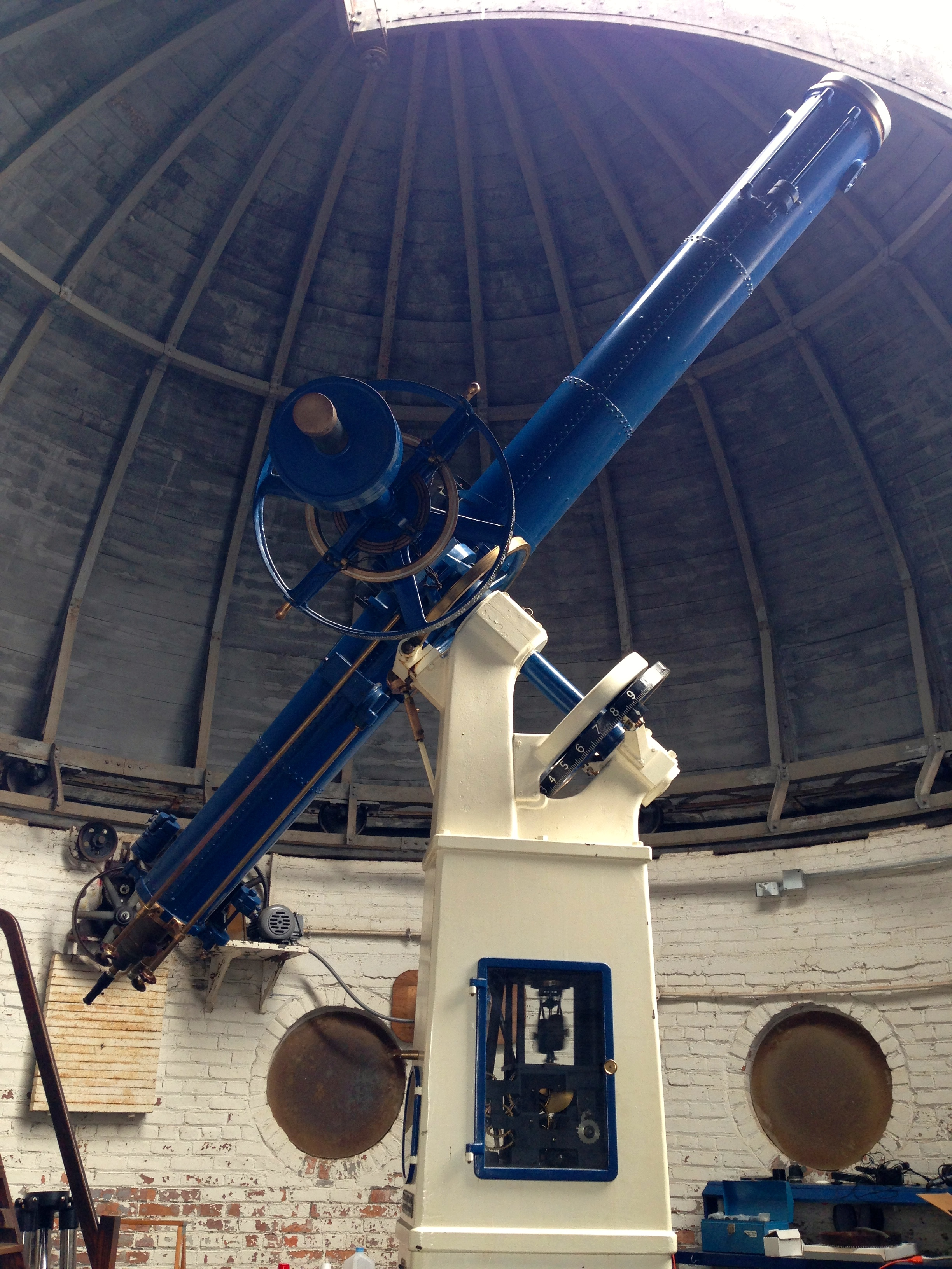 Cornell University's 12" f/15 refracting telescope, housed in Fuertes Observatory on North Campus. Built by Warner & Swasey Co. with lenses polished by John Brashear.